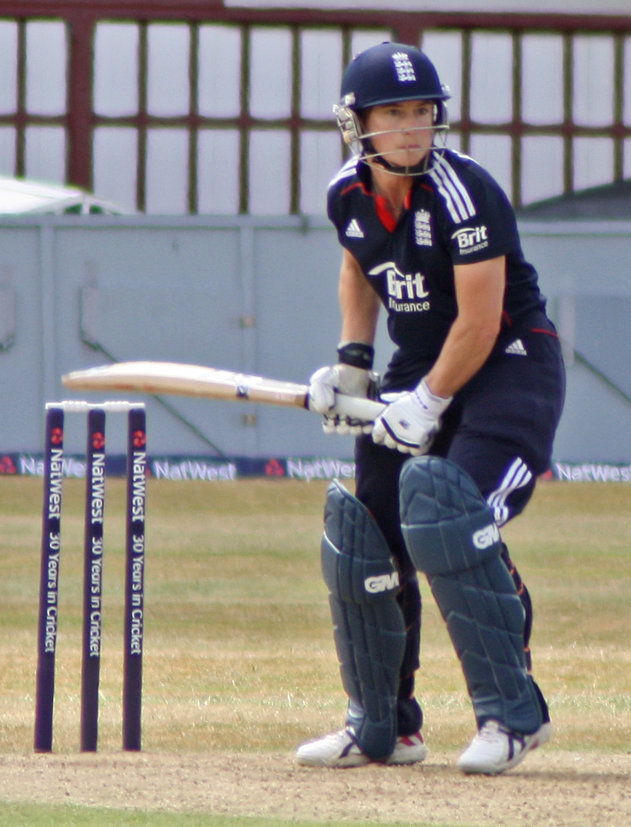 Claire Taylor batting for England women against New Zealand at the County Ground, Taunton in July 2010.